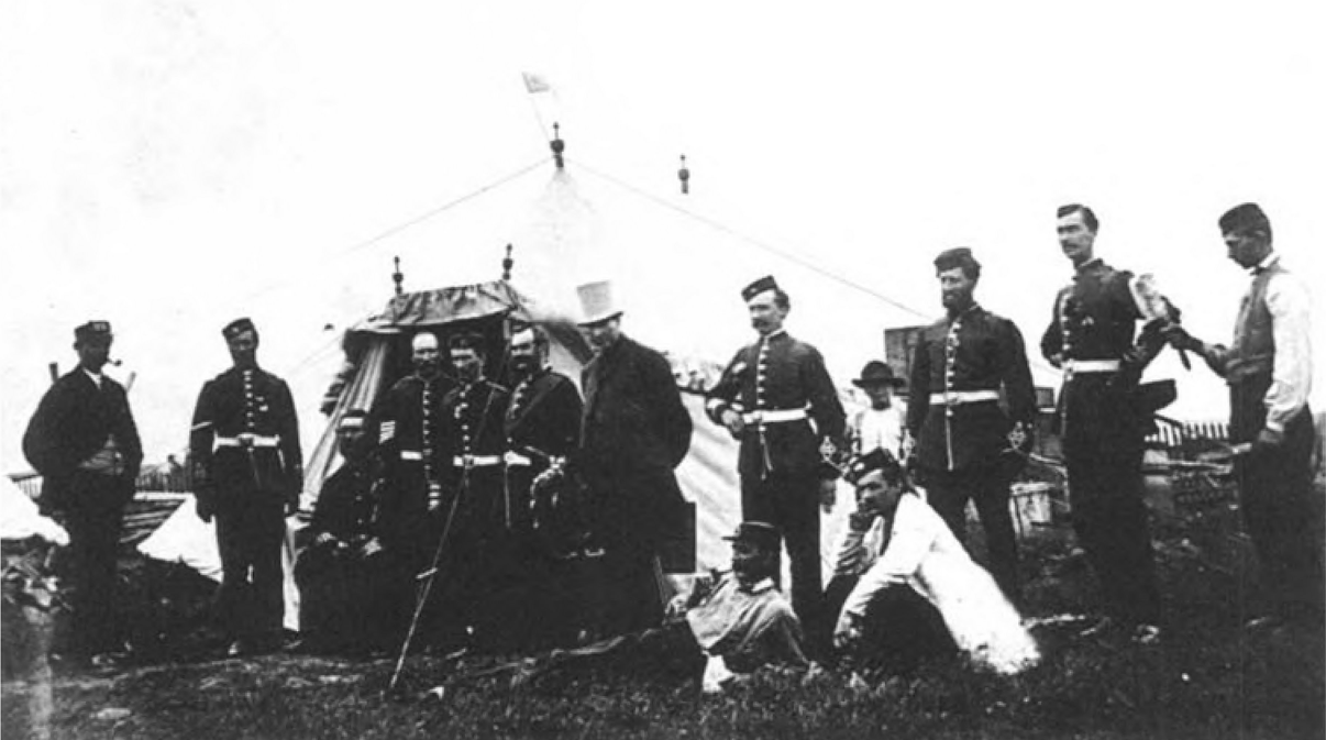 Canadian volunteers at Thorold, during the Fenian excursion of June 1866.